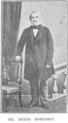 photograph of Dixon Robinson of Chatburn